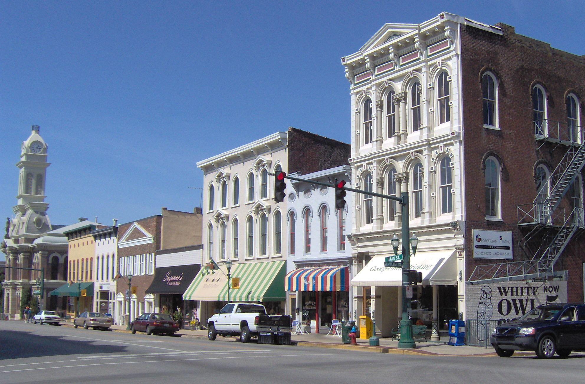 View of downtown Georgetown, Kentucky